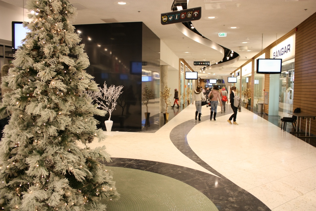 Inside Tasku shopping centre in Tartu